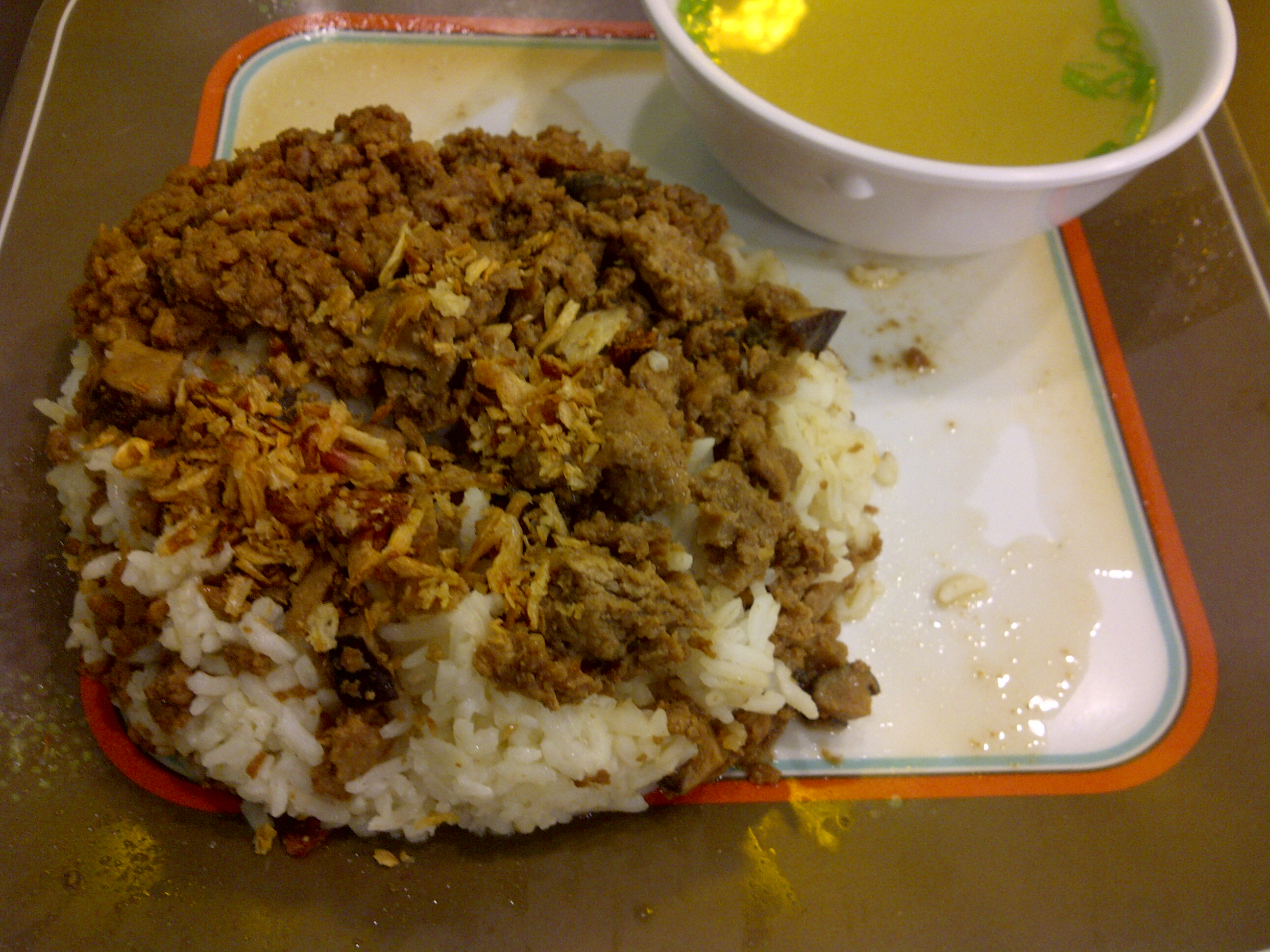 Nasi Tim - T-Station Seattle - Taken by Calvin Marquess